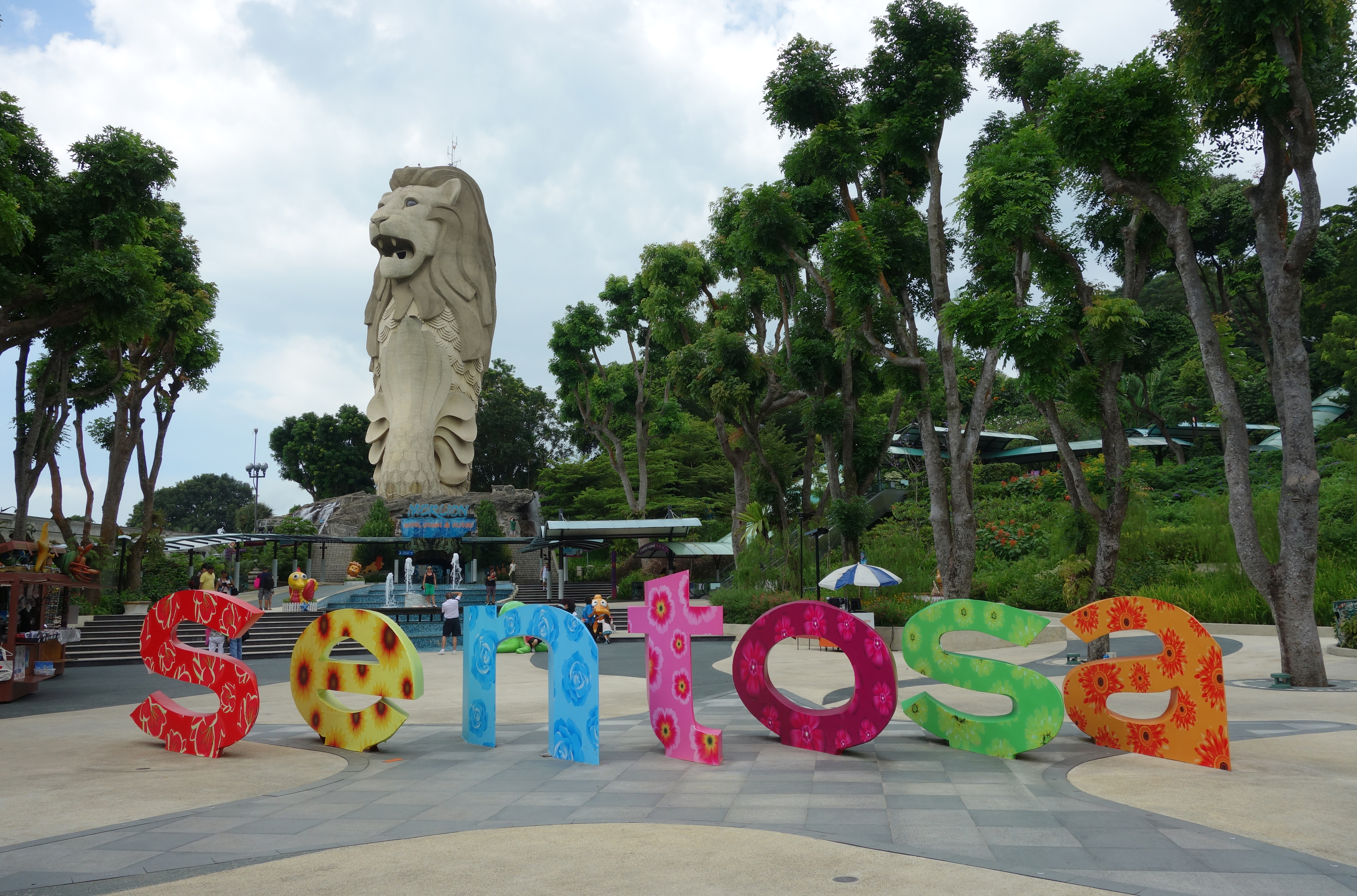 The Merlion statue at Sentosa Island, Singapore